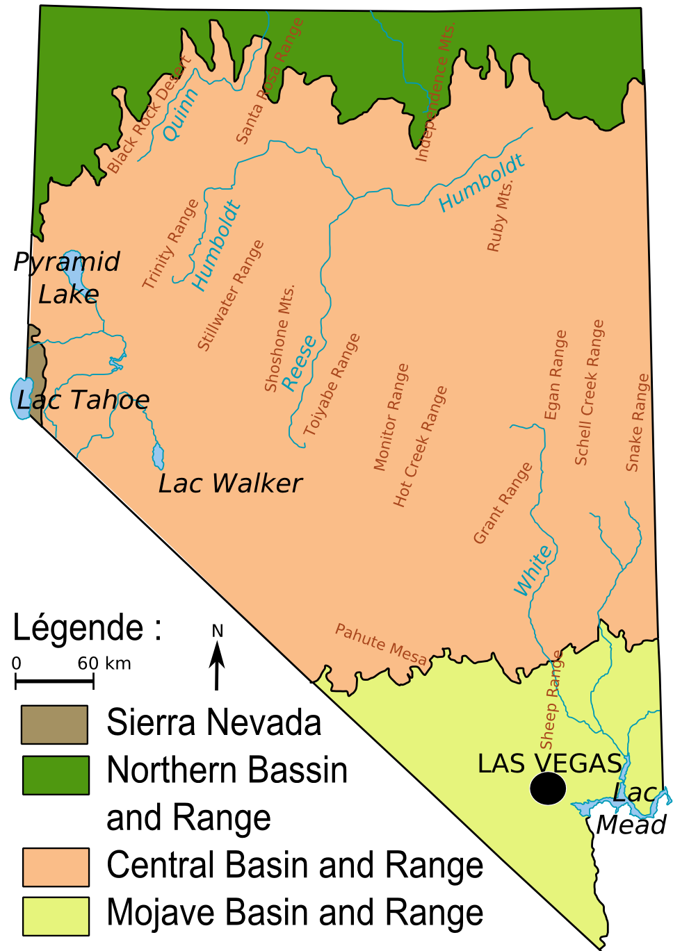 Map of Ecoregions in Nevada, USA